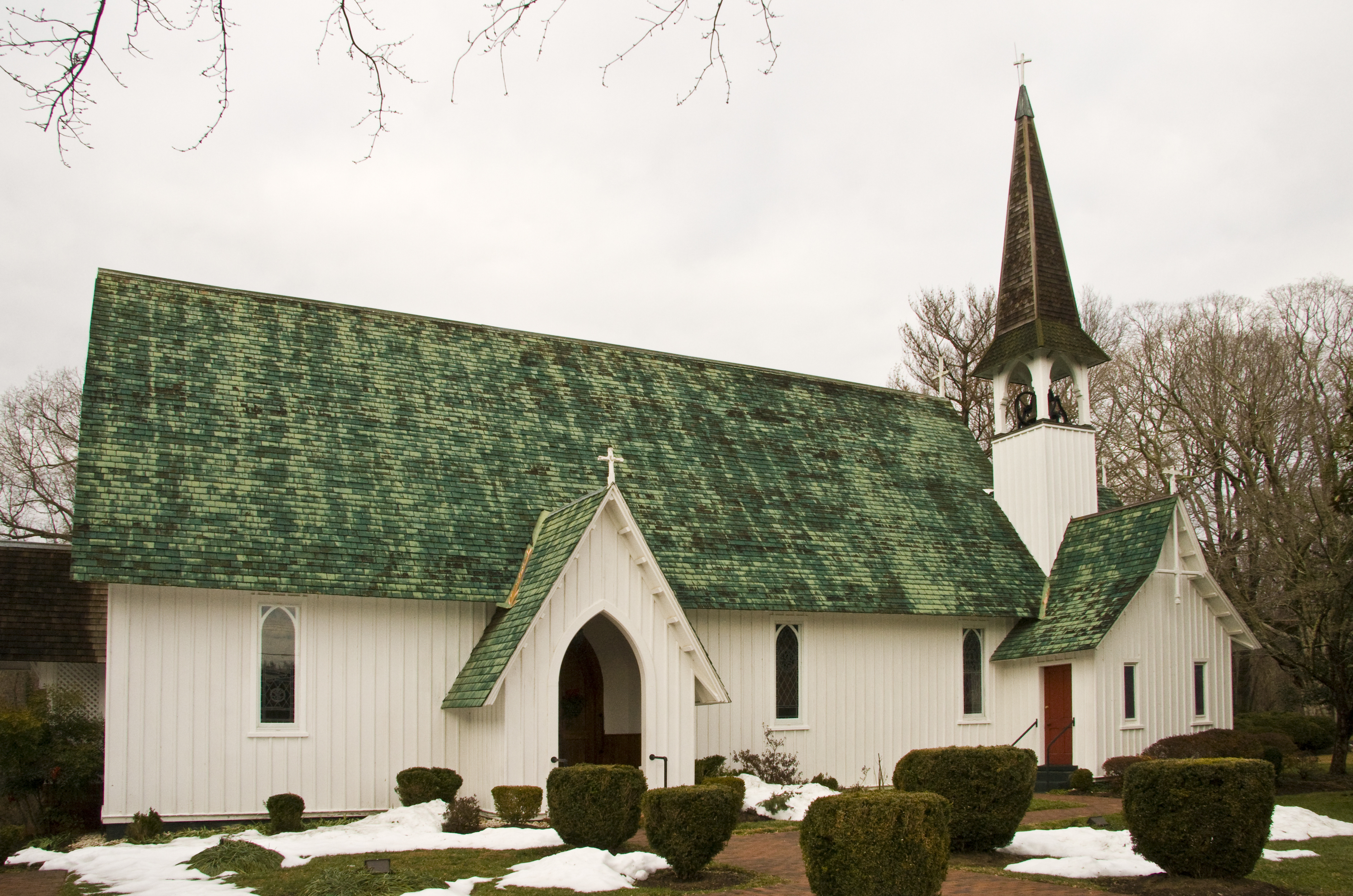 Christ Church, Galesville, Maryland